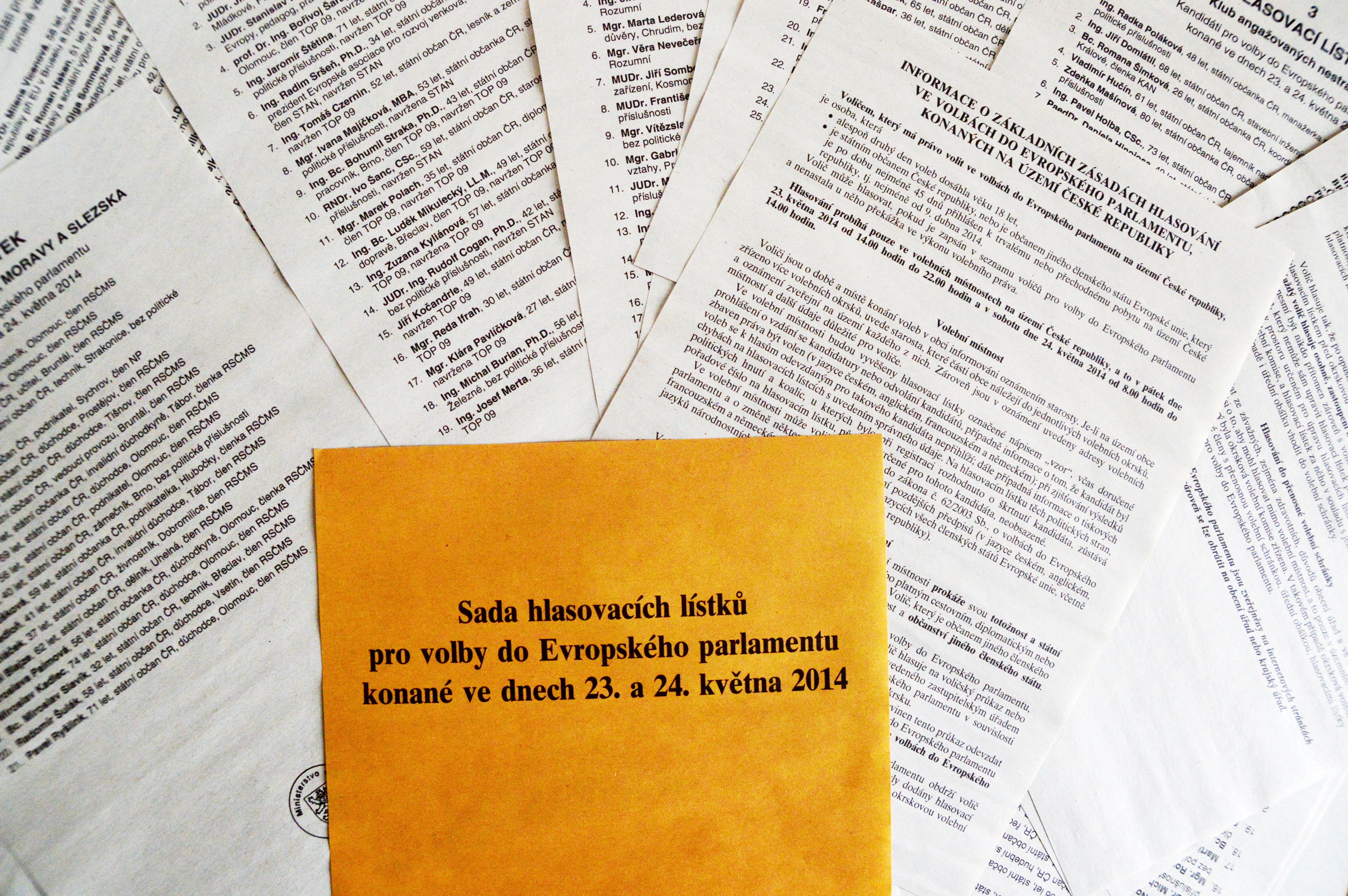 2014 European Parliament election – Czech ballot papers